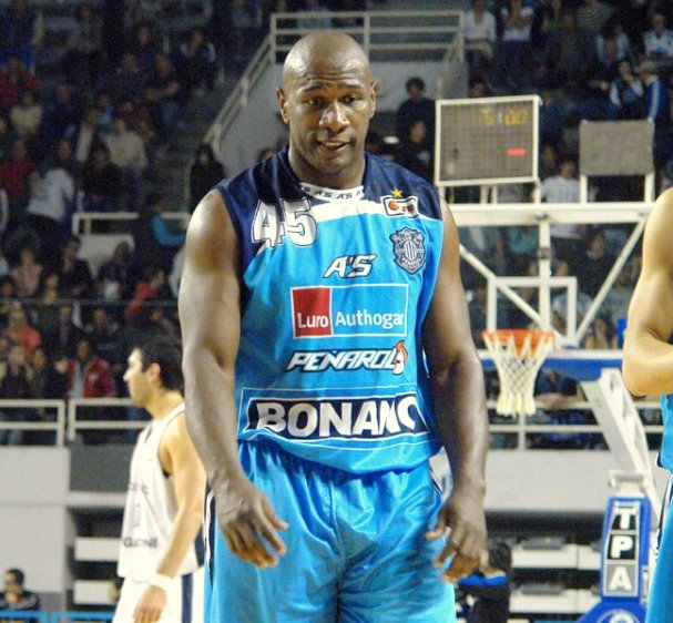 Peñarol's player Byron Wilson